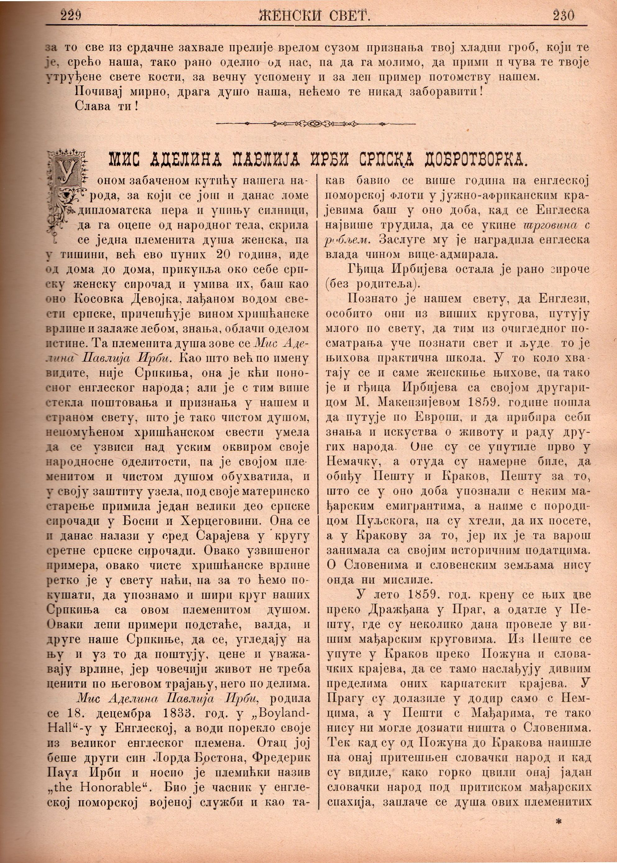 Ženski svet, magazine, number 8, page 229, 1887, Novi Sad, article about Miss Adelina Pavlija Irbi, Serbian benefactress.